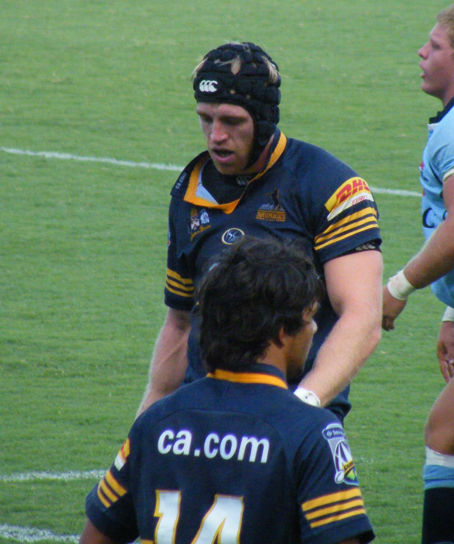 Brumby runner Shawn Mackay